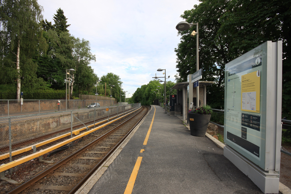 Steinerud Metrostation. Seen from the south-westbound platform 2.